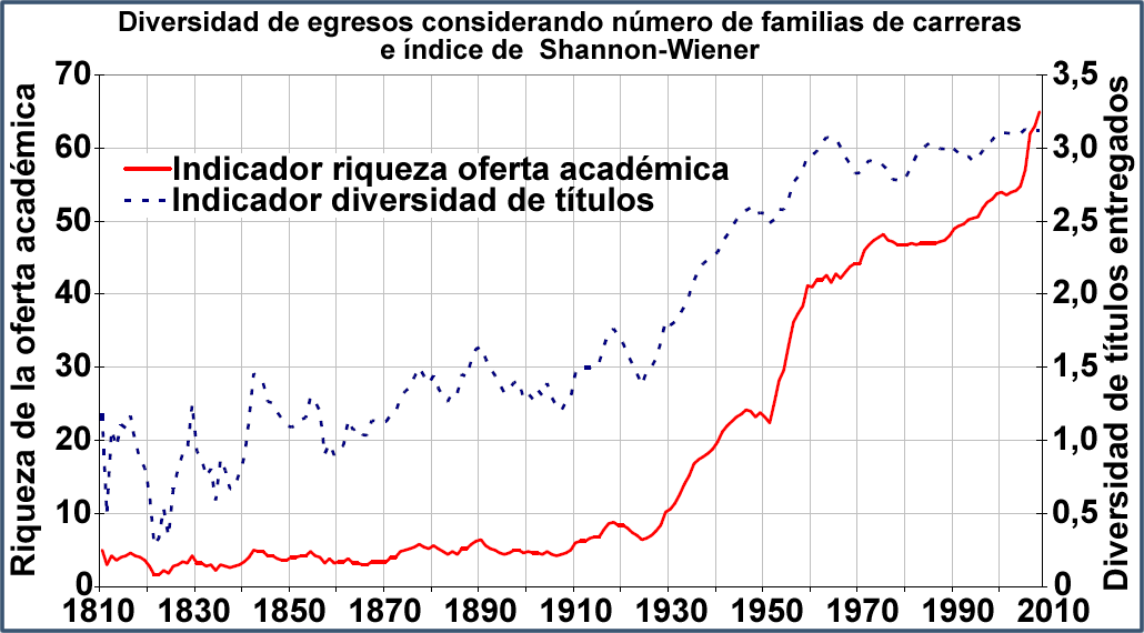 Diversity of degree offered and obtained. Work made using the Shannon-Wiener index. National University of Córdoba, period 1810-2010. Cordoba, Argentina.